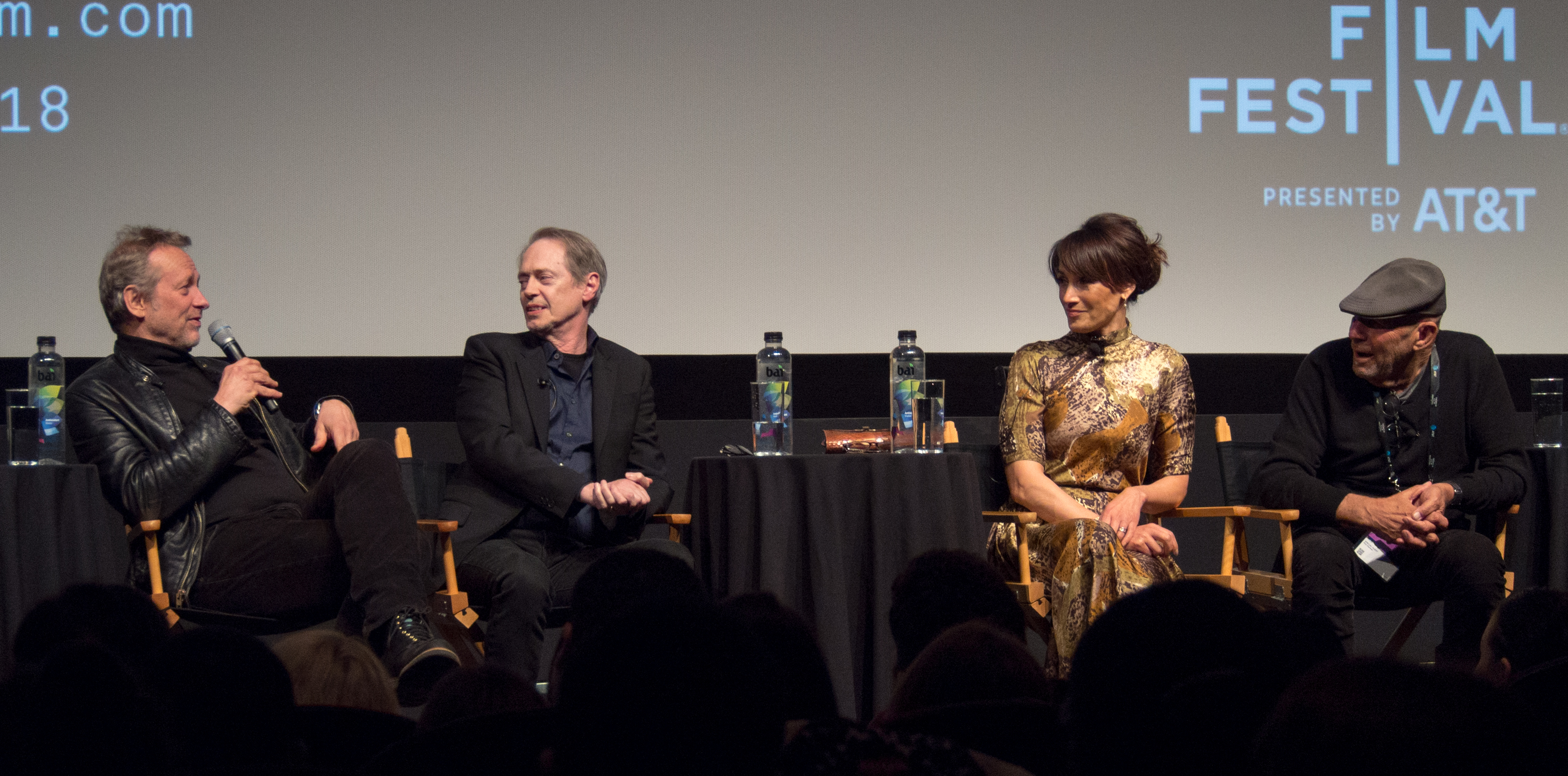 Alexandre Rockwell, Steve Buscemi, Jennifer Beals, and Phil Parmet during the In the Soup (1992) panel at the 2018 Tribeca Film Festival.